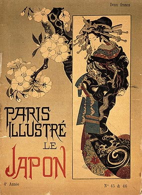 Title page of Paris Illustré "Le Japon' vol. 4, May 1886, no. 45-46. The illustration, after a print by Keisai Eisen, is a mirror image of the original woodcut. It was the source for Vincent van Gogh's painting The Courtesan (after Eisen), 1887